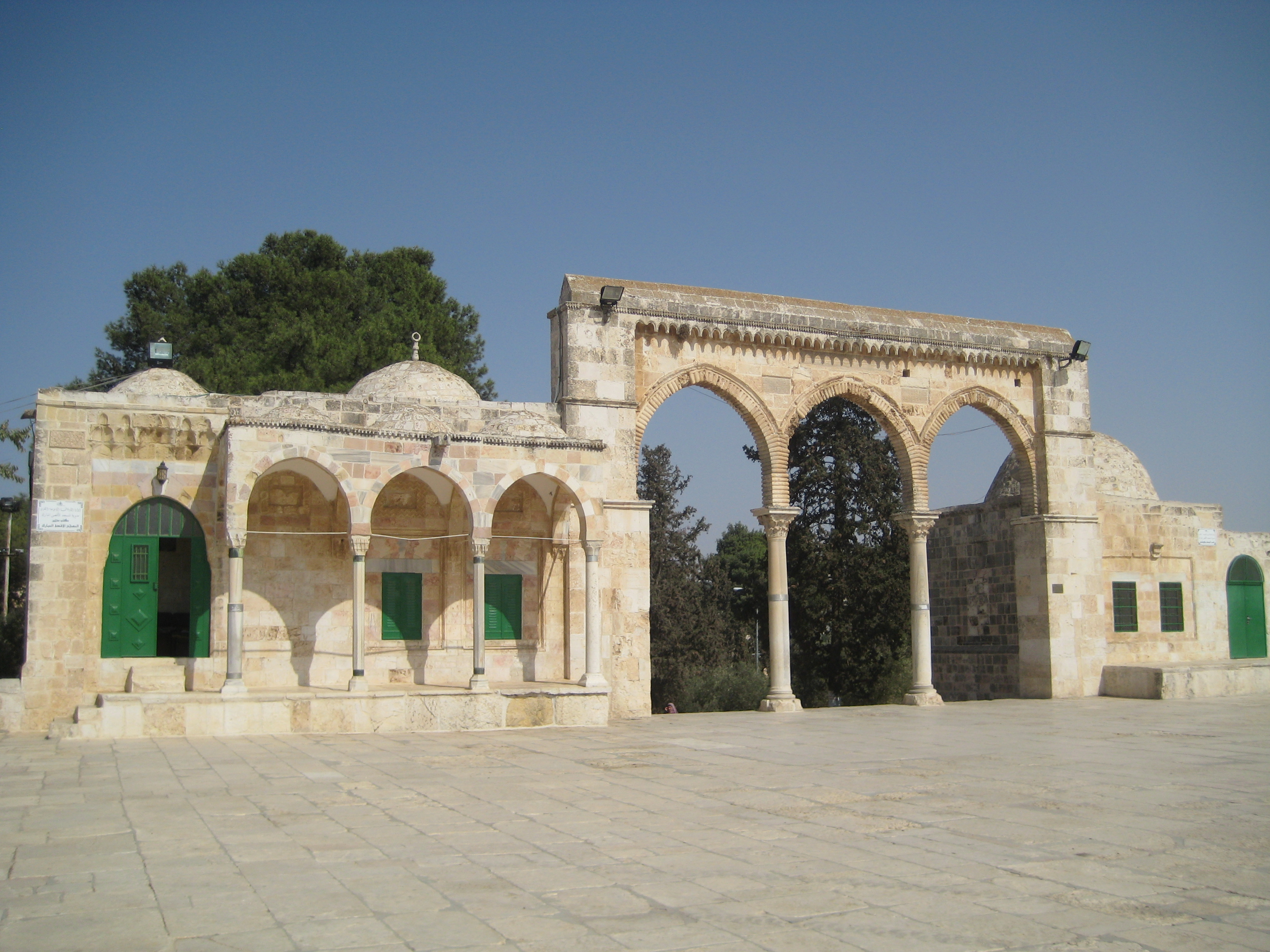 Above the Gate of Remission